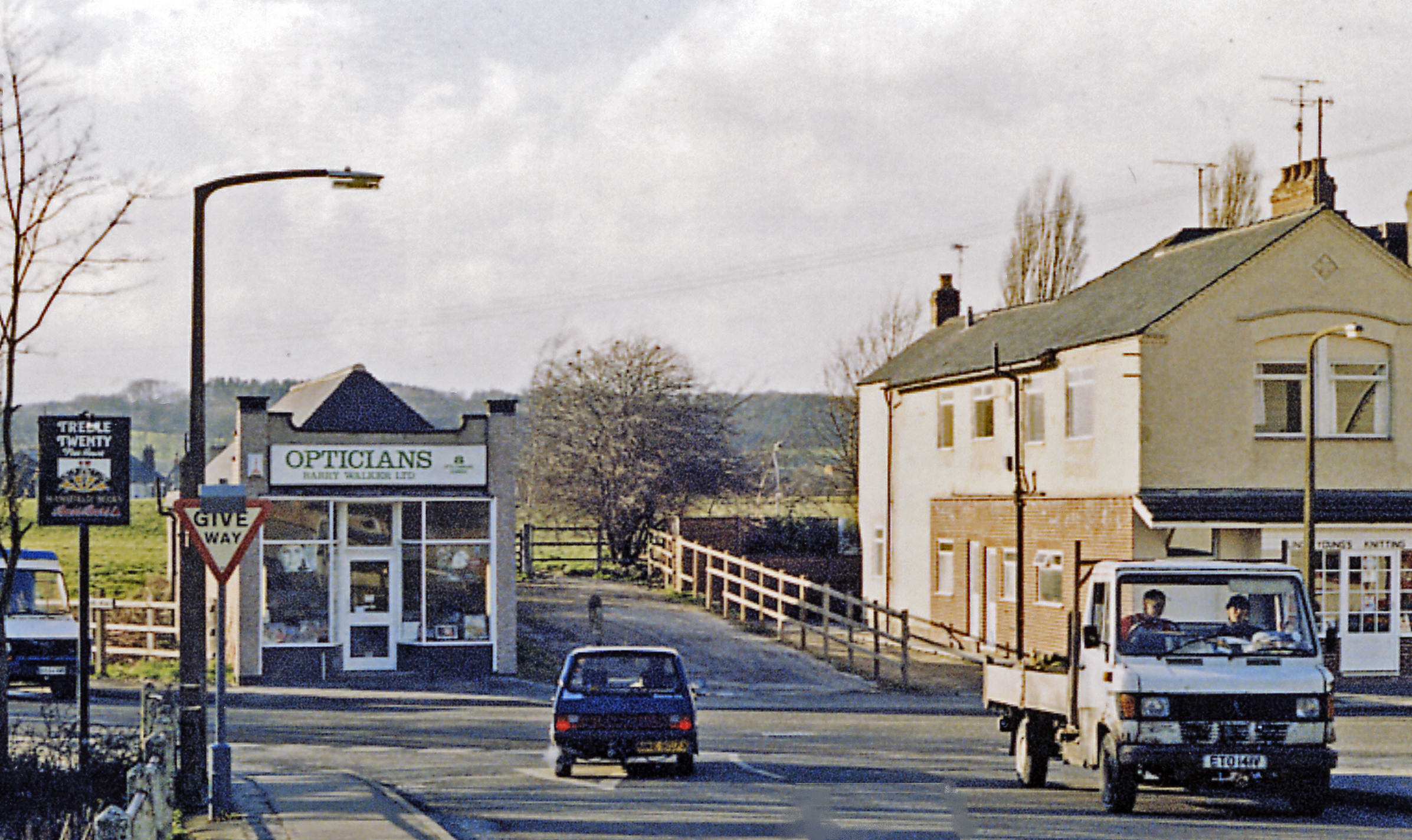 Site of Jacksdale station, 1989. View westwards, across course of ex-GN (Nottingham) - Kimberley - Pinxton branch, closed 7/1/63. Until 1/7/50 the station was called 'Codnor Park, for Ironville and Jacksdale'.